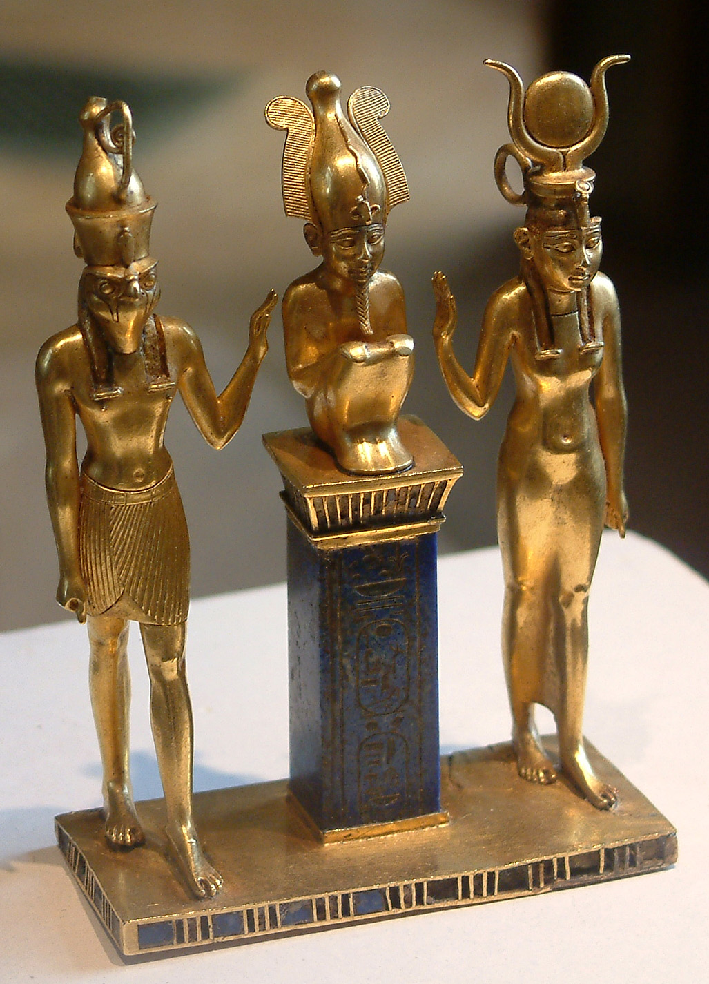 Pendant bearing the name of King Osorkon II, with Isis, Osiris and Horus. Gold, lapis and red glass, 874–850 BC (22nd Dynasty).